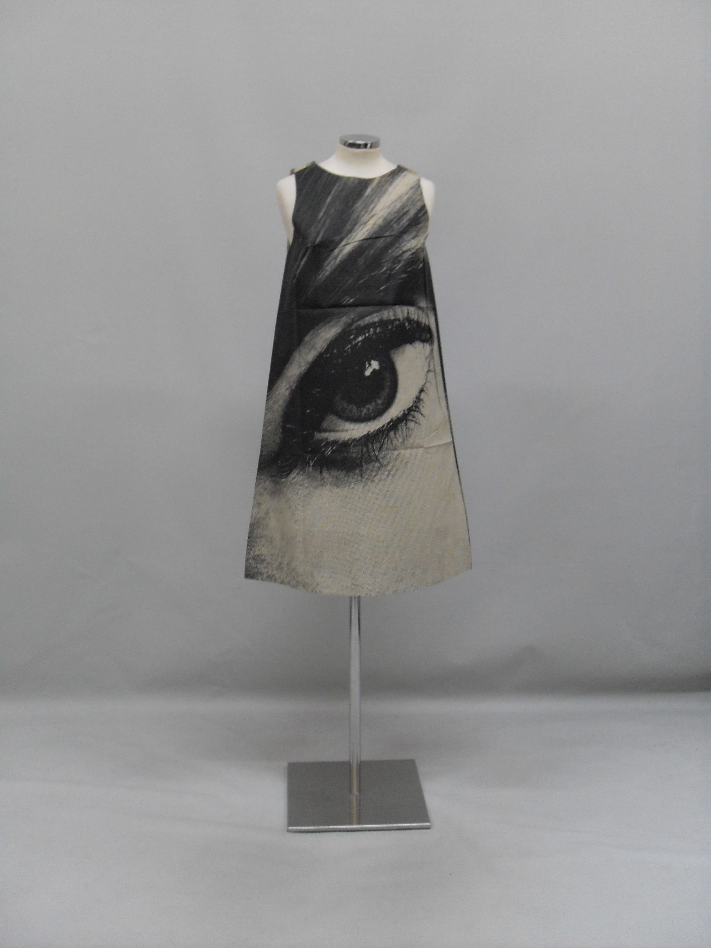 "Mystic Eye" Pop art paper dress by Harry Gordon, American, 1967. The photographic eye is that of Audrey Hepburn. Collection of the Peloponnesian Folklore Foundation, museum no. 2006.6.90